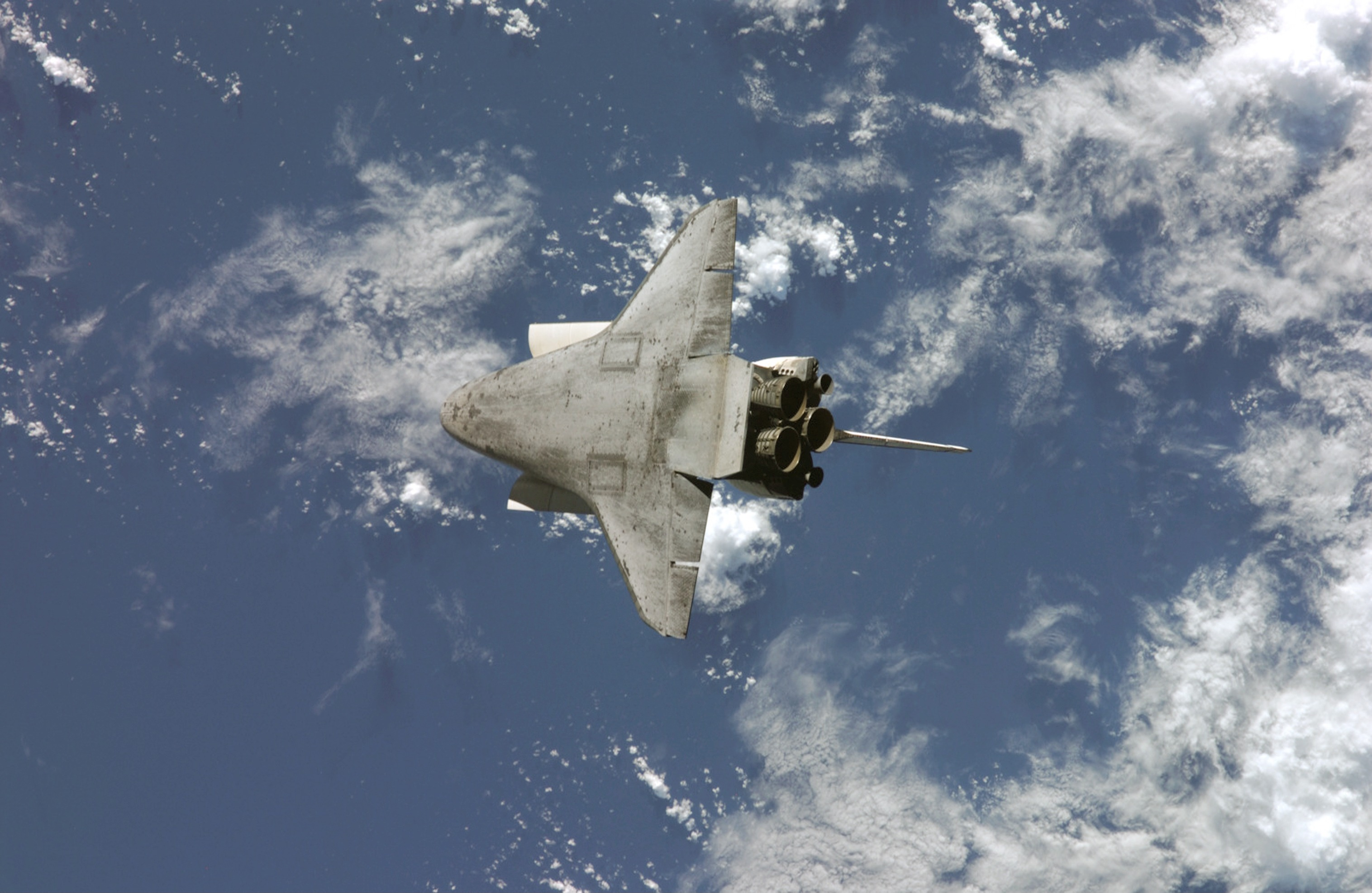 This underside view of the Space Shuttle Atlantis was photographed by an Expedition 15 crewmember as Atlantis approached the International Space Station and performed a back-flip to allow photography of its heat shield. The photos will be analyzed by engineers on the ground as additional data to evaluate the condition of Atlantis' heat shield.